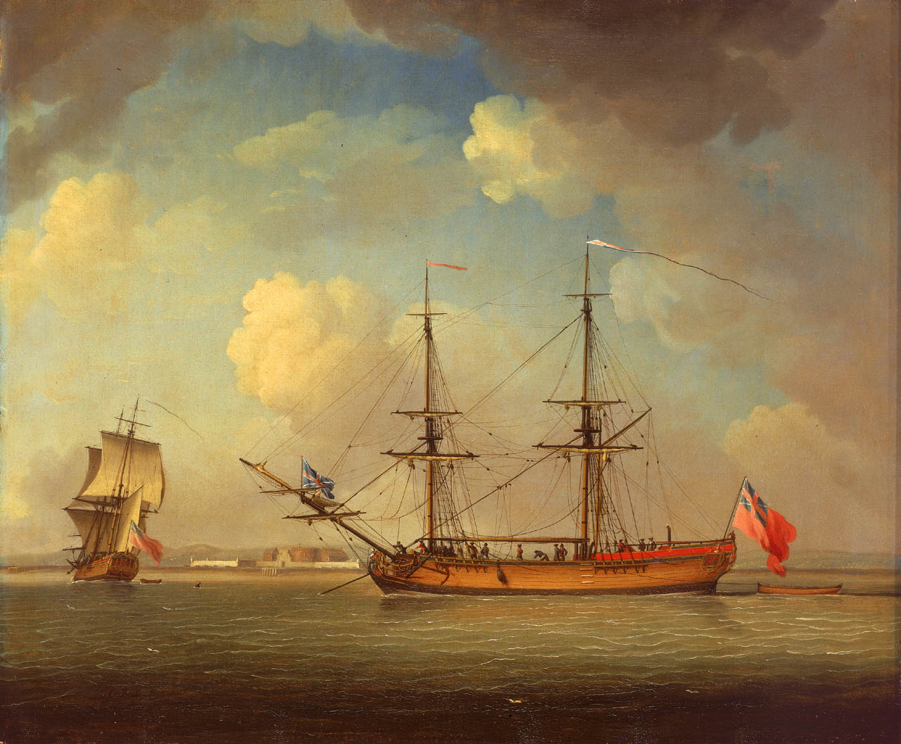 This ship portrait shows the vessel in two positions, port-broadside and port-quarter in the distance. She is called a snow rather than a brig, because her gaff-sail is laced to a little jigger-mast which is stepped aft of the mainmast. With her jack and commissioning pendant she is clearly naval, presumably a transport or supply vessel bought or hired by the Navy, but not a fighting ship. The background appears to be Tilbury Fort, opposite Gravesend in the Thames.